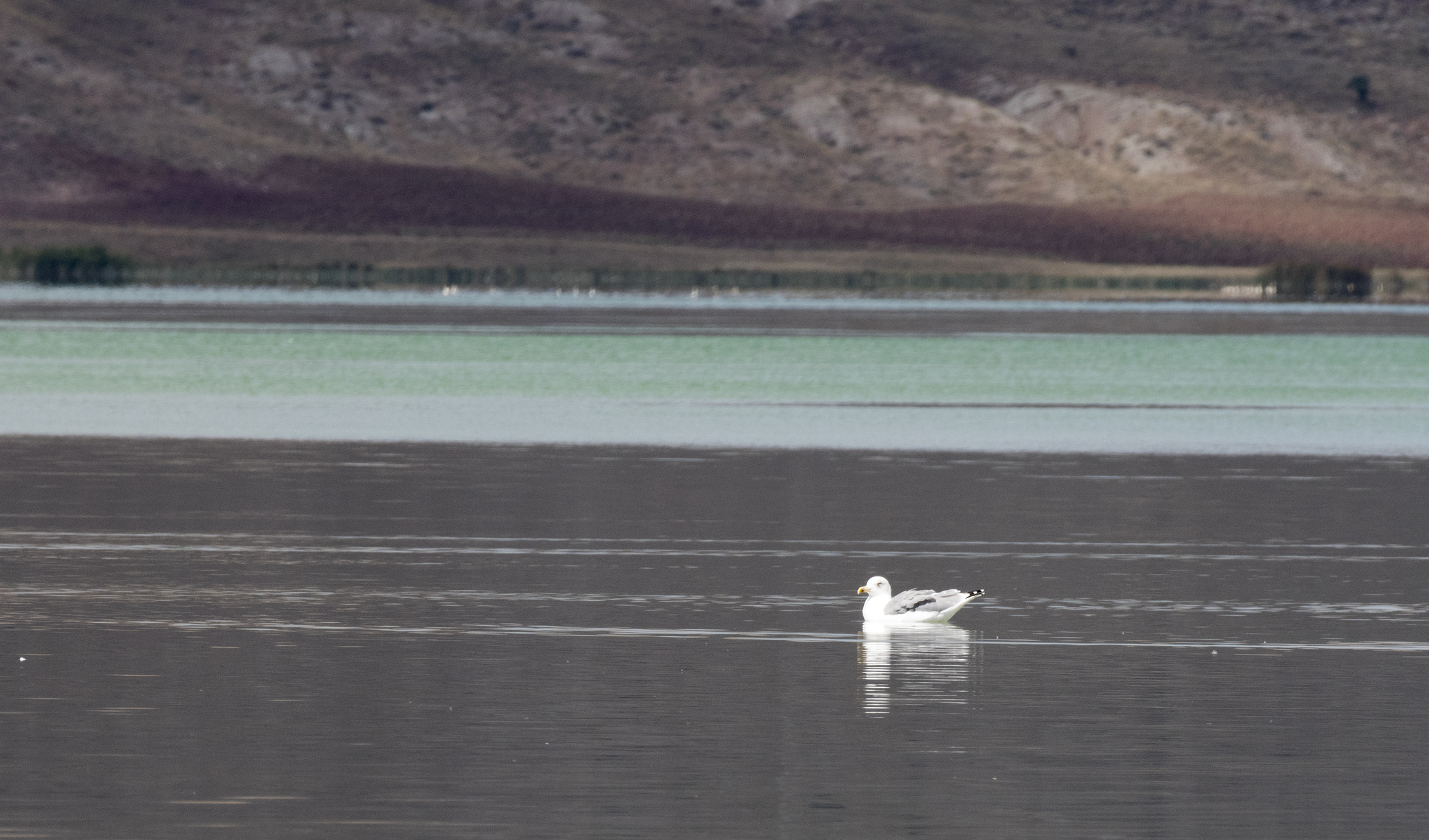 A partial view of the Lake Tödürge. Hafik, Sivas - Turkey.